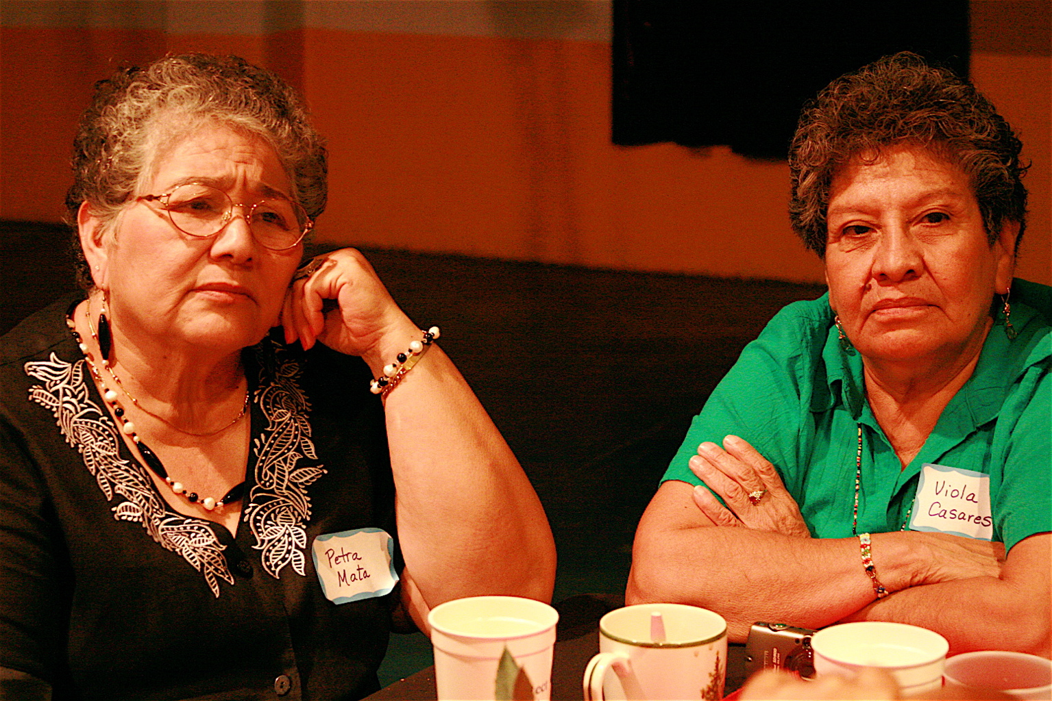 Petra Mata and Viola Casares from Fuerza Unida in attendance at EPJC dinner